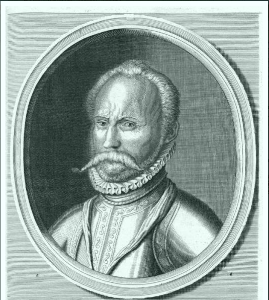 Diederik Sonoy